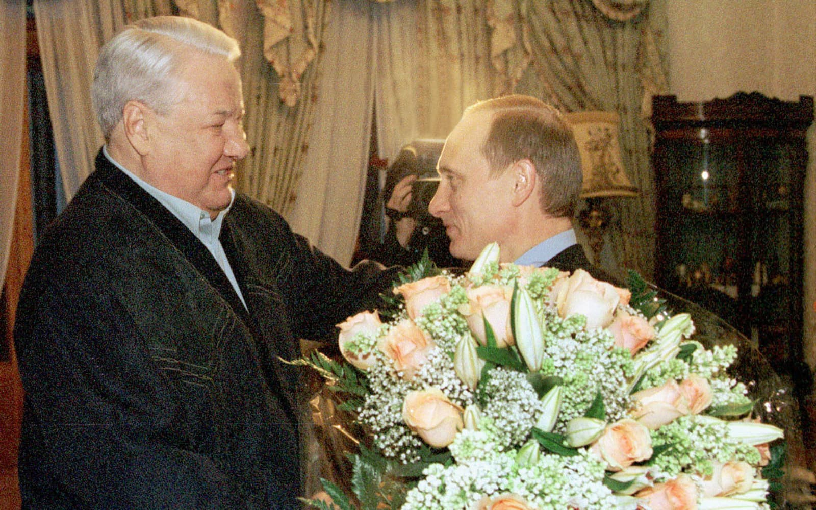 GORKY-9. With first Russian President Boris Yeltsin.